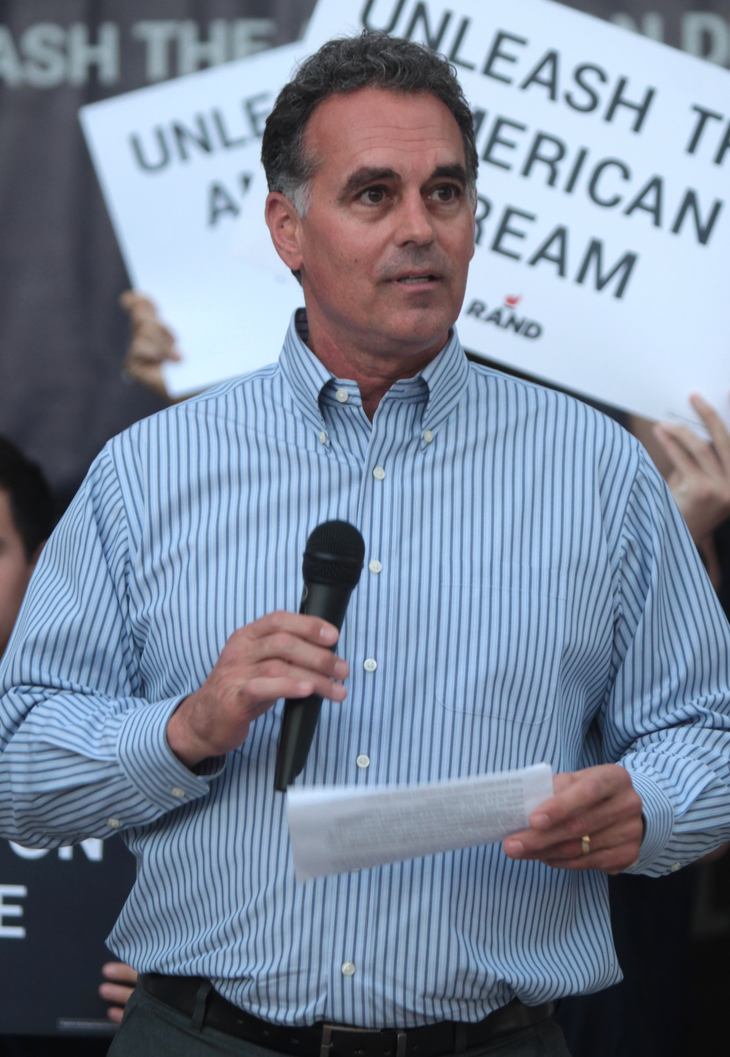 Danny Tarkanian speaking at an event in Las Vegas, Nevada.